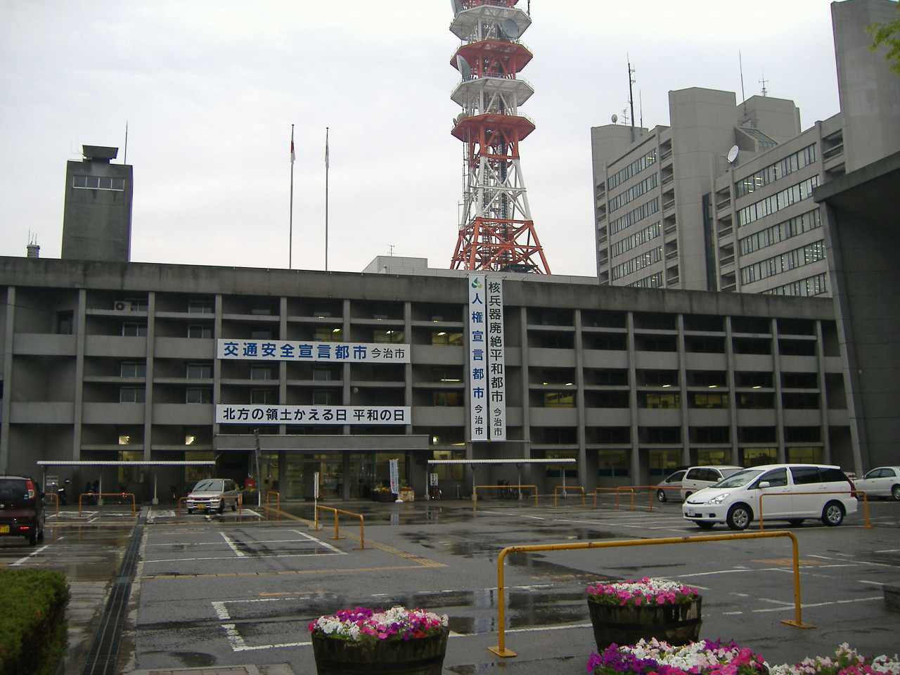 Imabari_City-hall (Ehime, Japan)